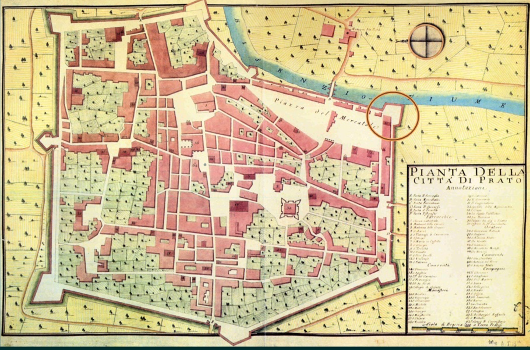 map Prato